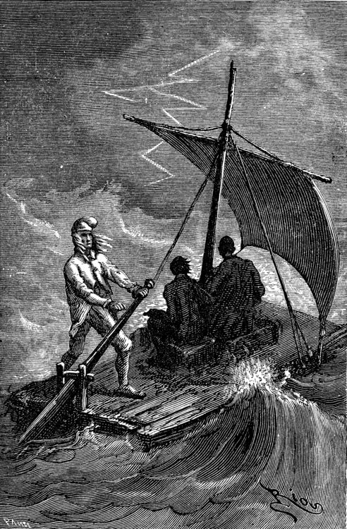 An ilustration from the novel "Journey to the Center of the Earth" by Jules Verne painted by Édouard Riou.